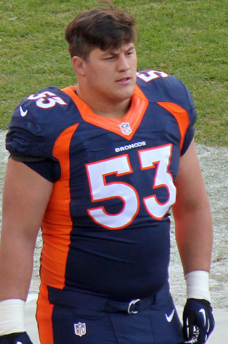 James Ferentz, a player on the National Football League.